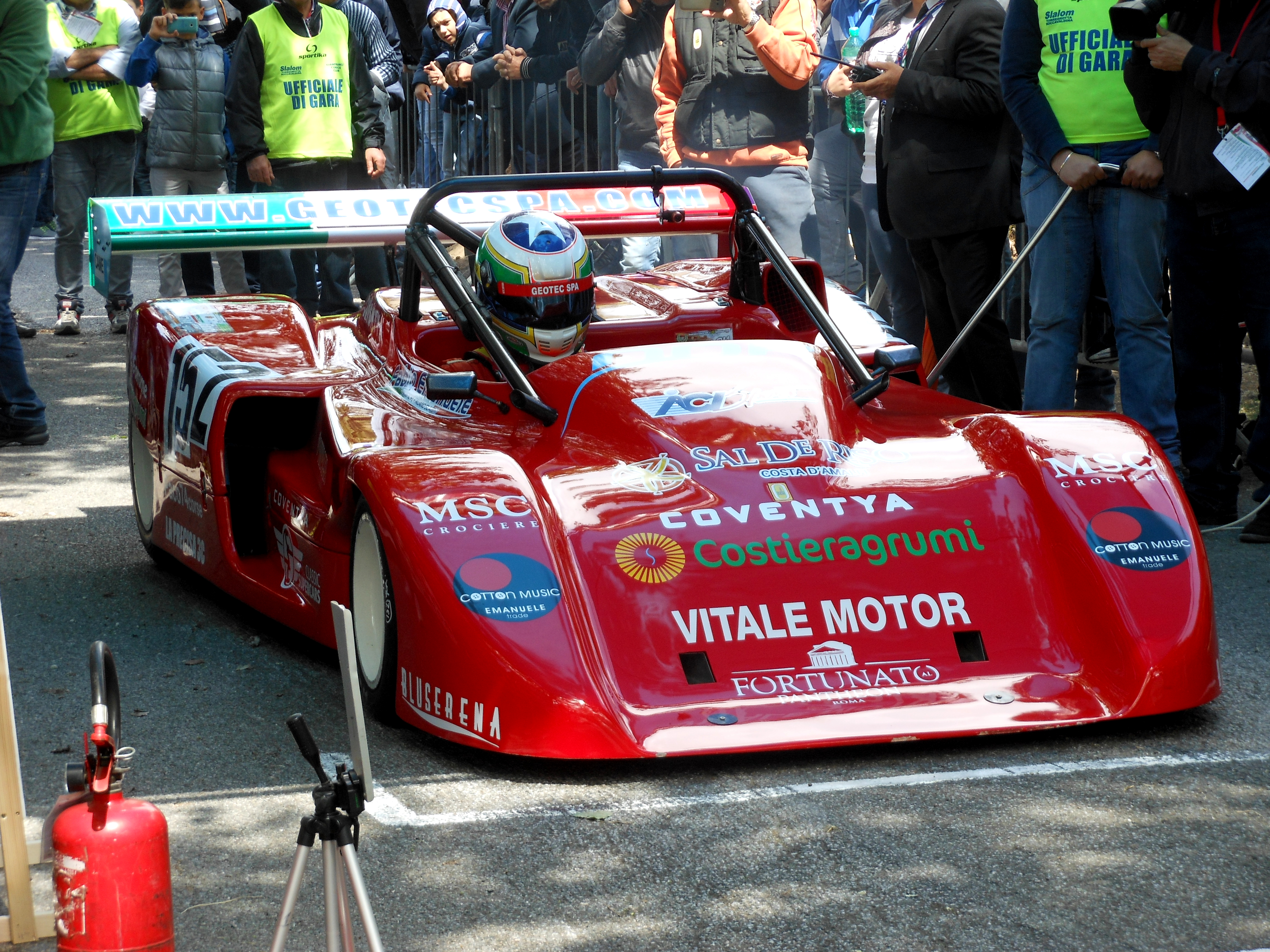 The italian driver Fabio Emanuele on board the Osella PA9/90 Alfa Romeo during 2016 edition of Slalom Torregrotta-Roccavaldina.